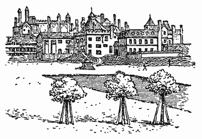 View of the Cockpit-in-Court theatre, London, From an engraving by Mazell in Pennant's London. Mr. W.L. Spiers, who reproduces this engraving in the London Topographical Record (1903), says that it is "undated, but probably copied from a contemporary drawing of the seventeenth century."